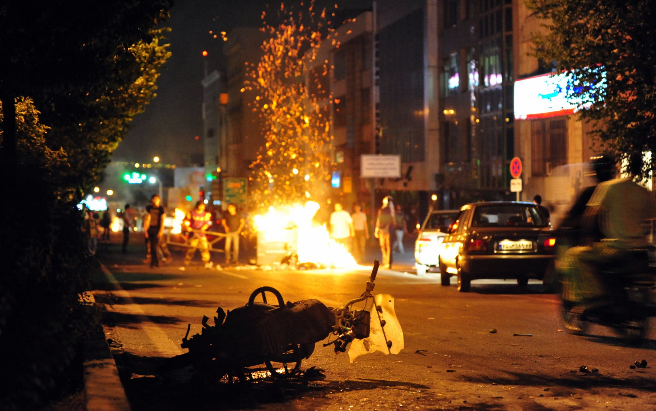 Baseeji motorbike set on fire by protesters, Tehran. More photos here: Viva Iran!